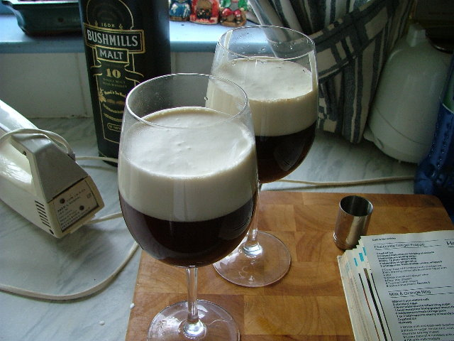 Irish coffee created with 10 year Bush Malt.